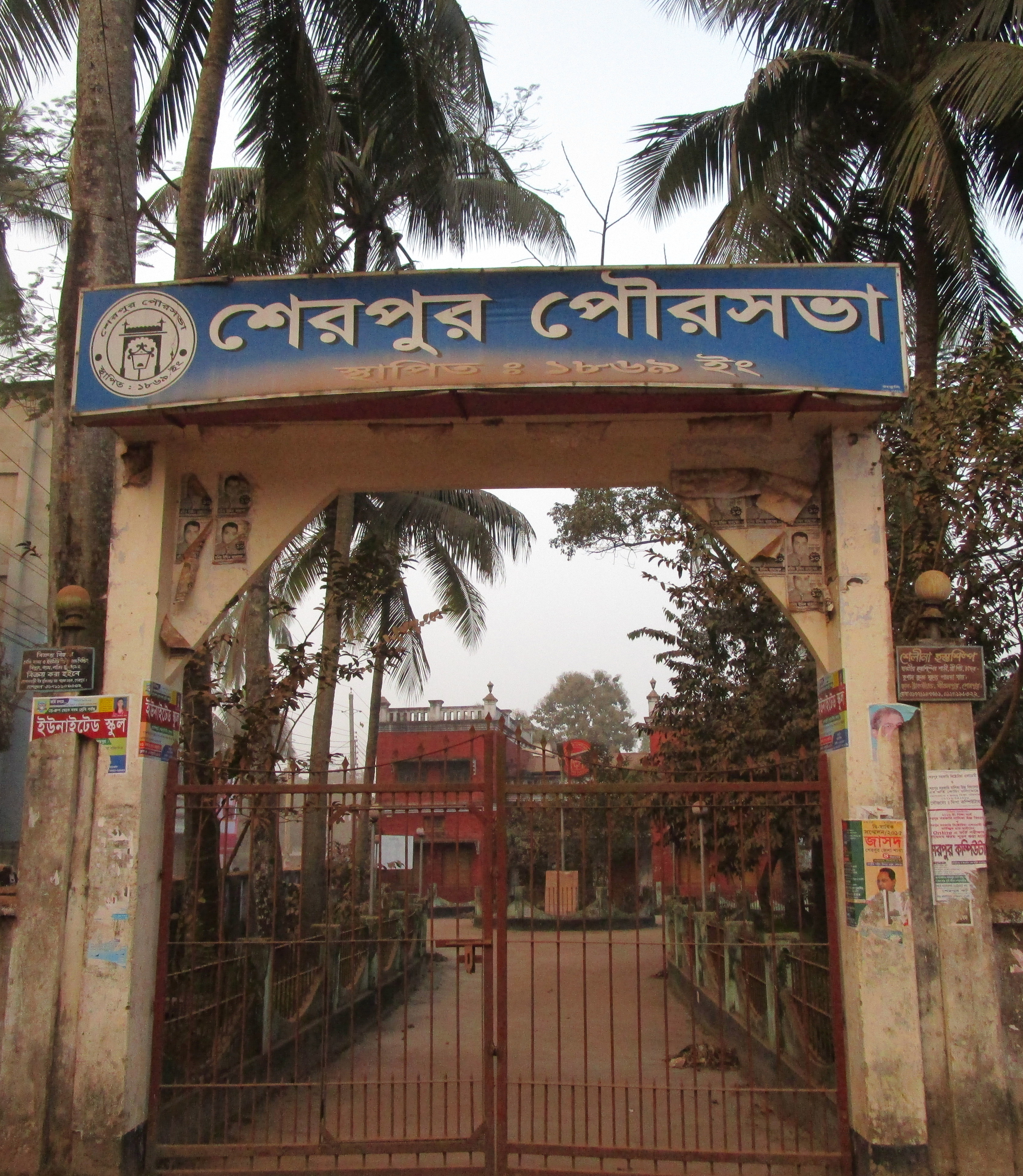 Sherpur municipal.